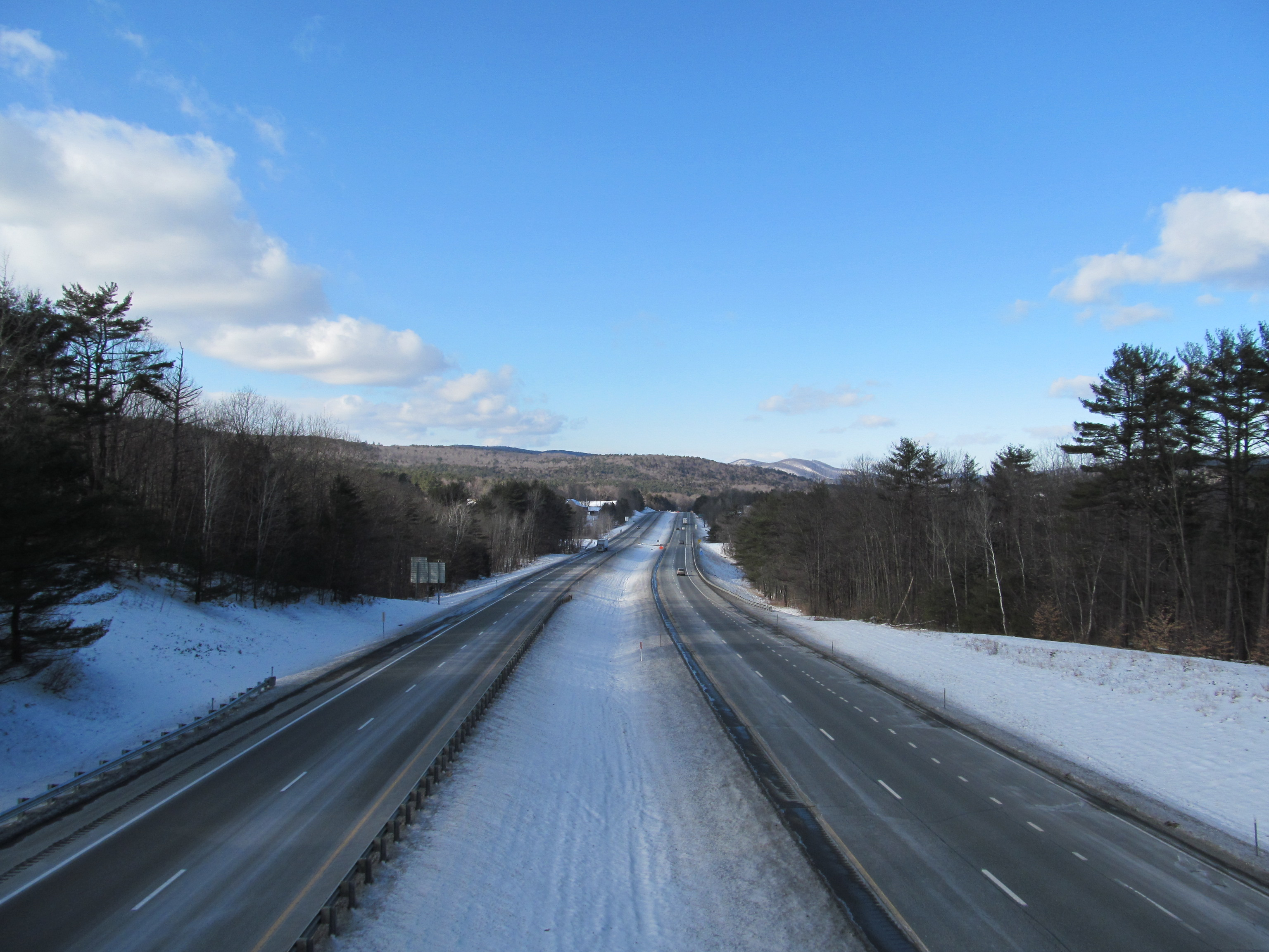 Interstate 89 northbound, Hartford Vermont